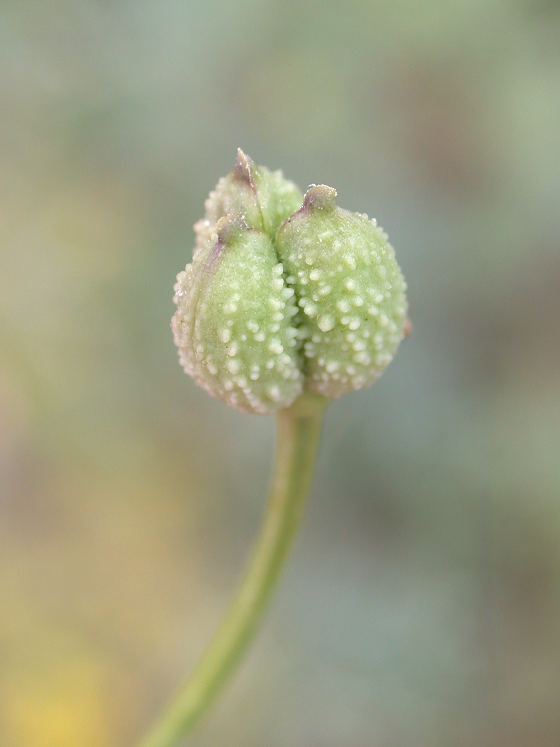 Fruit of Garidella unguicularis Poir., Ramat Hanadiv, Mount Carmel, Israel, April 24, 2009. Other names: Nigella unguicularis (Poir.) Spenner.